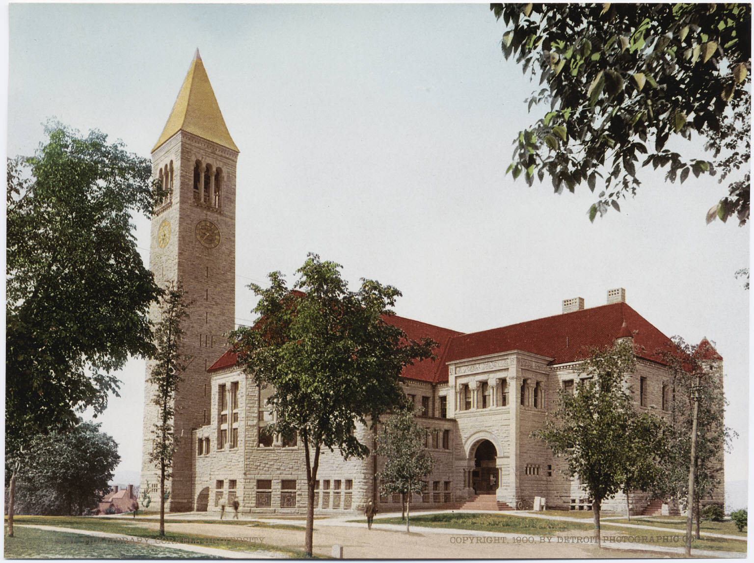 A photochrom postcard published by the Detroit Photographic Company.